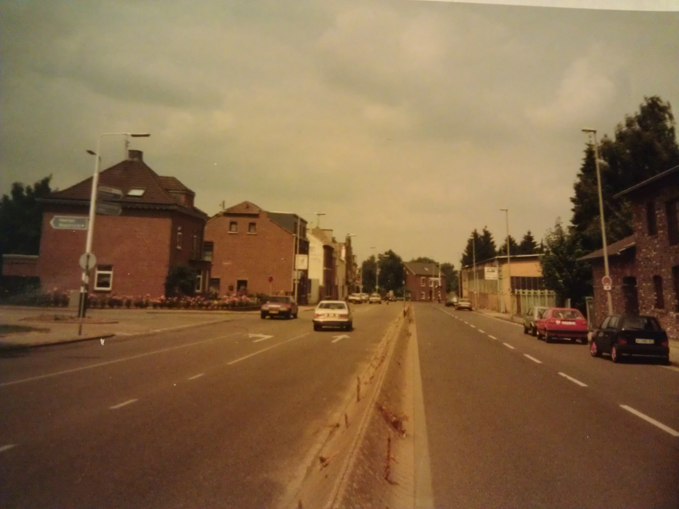 Niuewstraat,Kerkrade,Netherlands (left) Neustrasse,Herzogenrath.Germany (right)